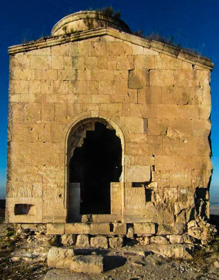 Saint Sargis monastery, Gag mountain